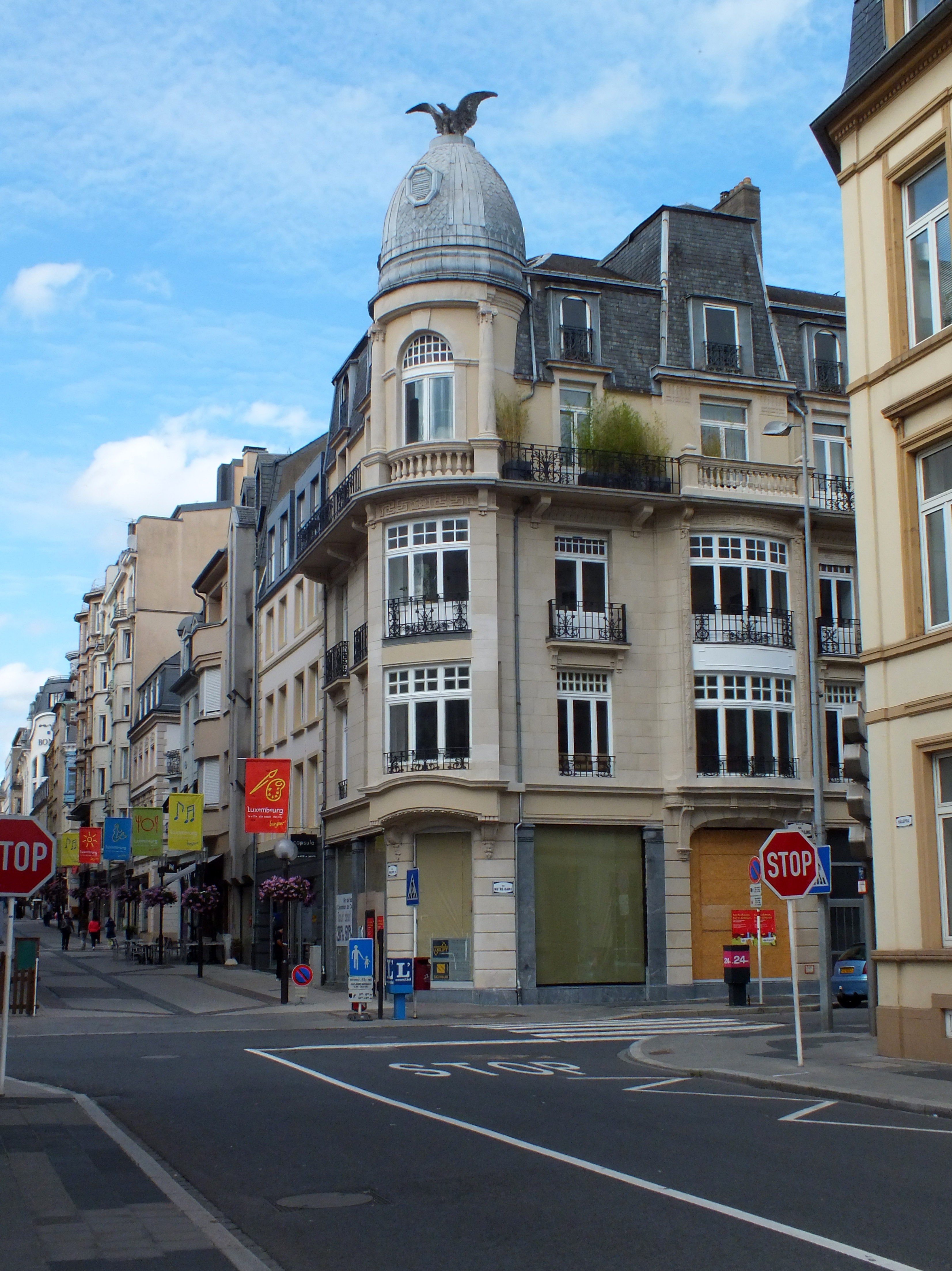 The Amercian Building, corner rue Philippe II with rue Notre Dame in Luxembourg City.